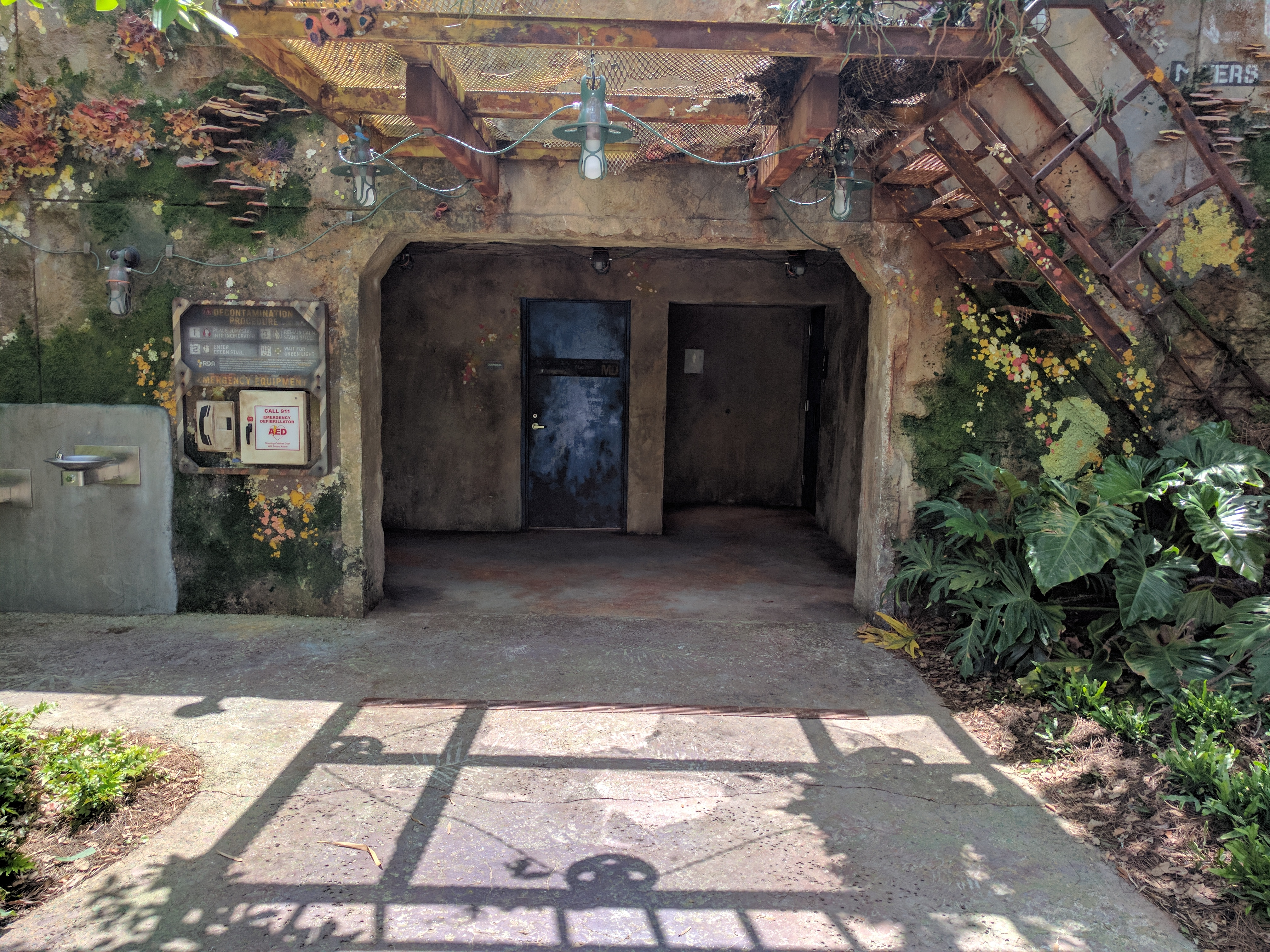 Cast Pongu (Party) at Pandora-The World of Avatar